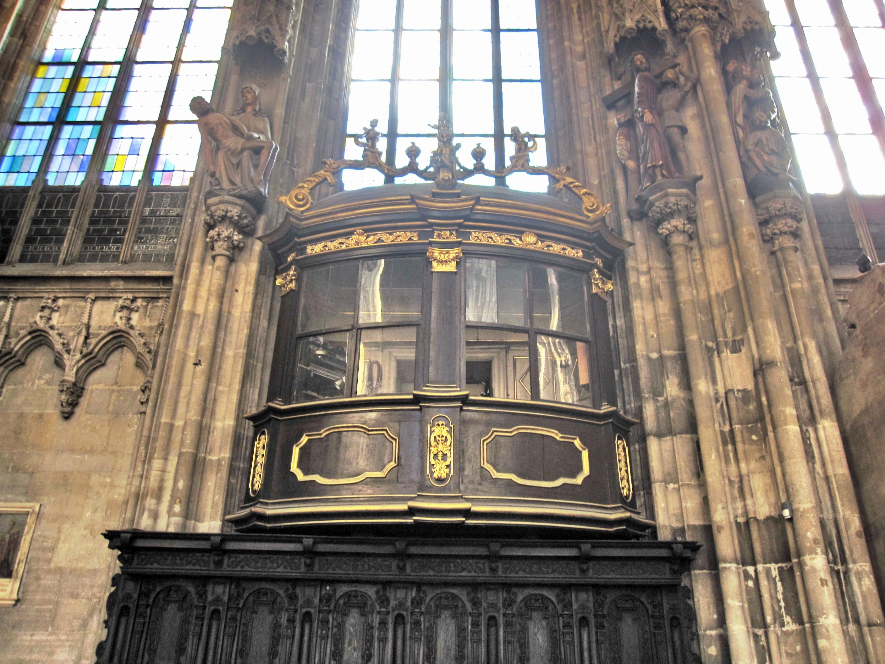 Imperial oratory in St. Stephen's Cathedral in Vienna.